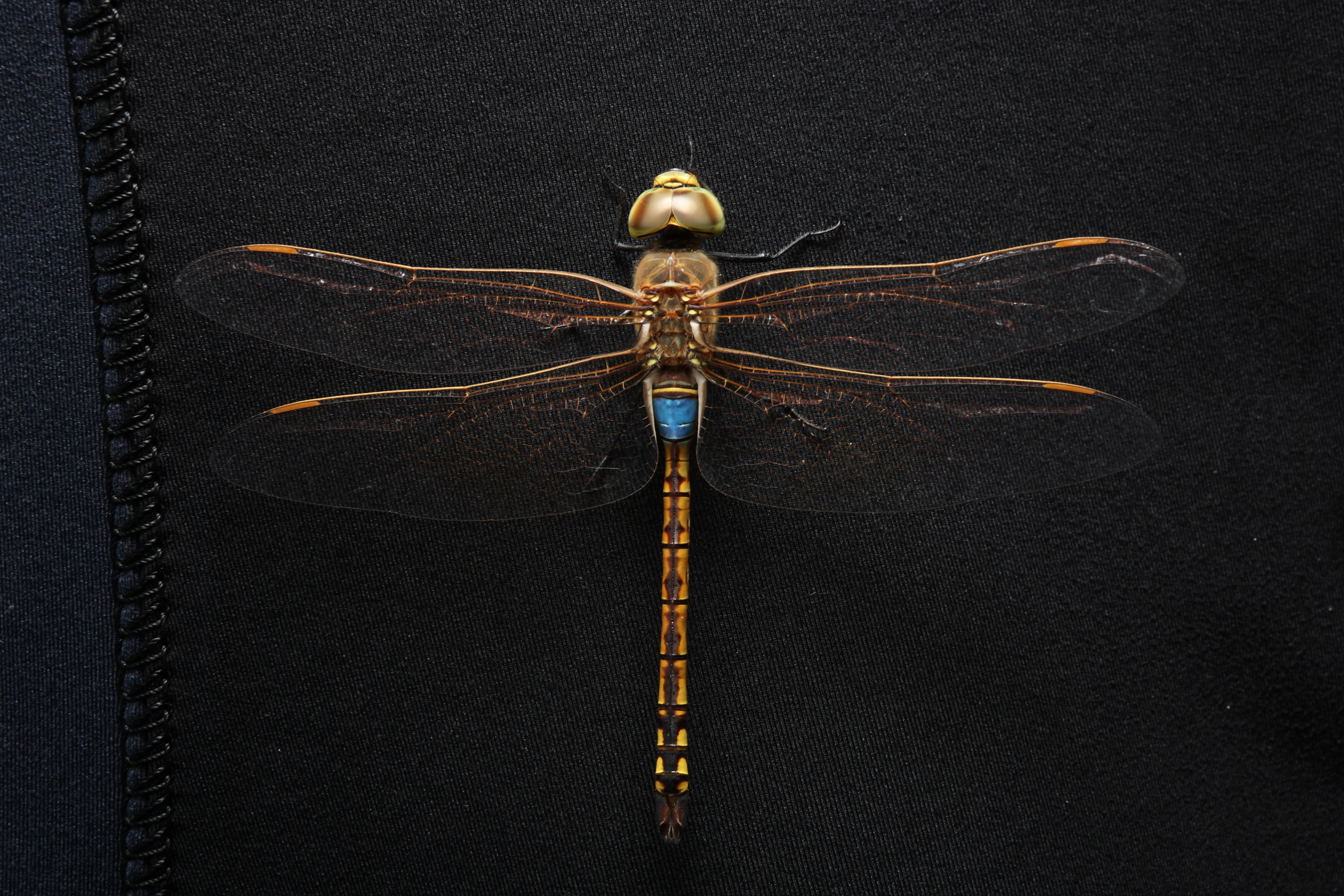 Vagrant emperor (Hemianax ephippiger) dragonfly (Egypt)